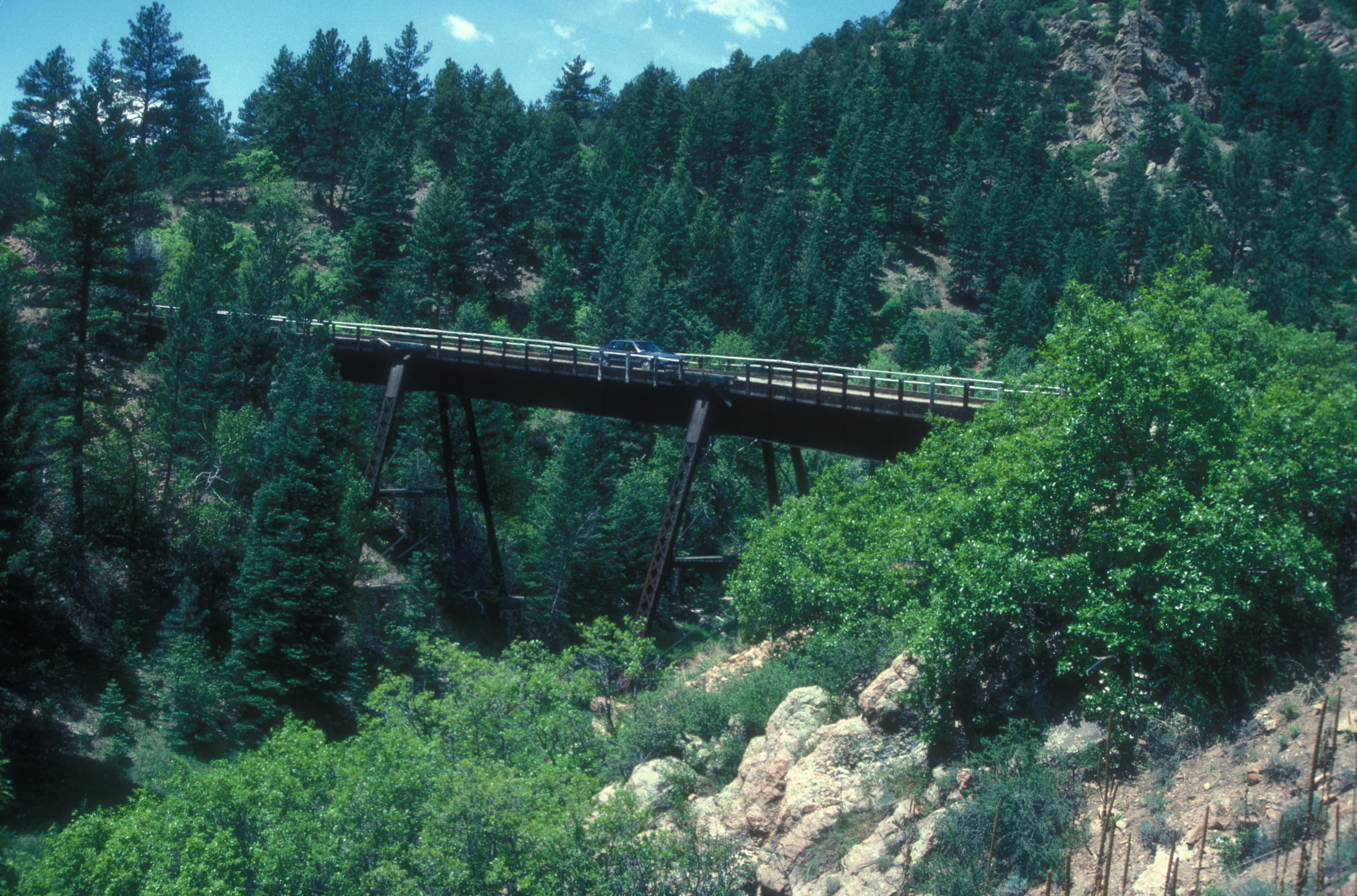 FLORENCE AND CRIPPLE CREEK RAILROAD BRIDGE THROUGH PHANTOM CANYON. $150.000.000 WORTH OF GOLD WAS TRANSPORTED OVER THIS BRIDGE Also known as Bridge No. 10 or Adelaide Bridge